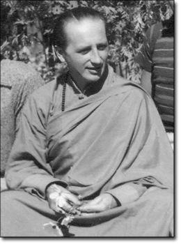 Lama Govinda in an internment camp during World War II